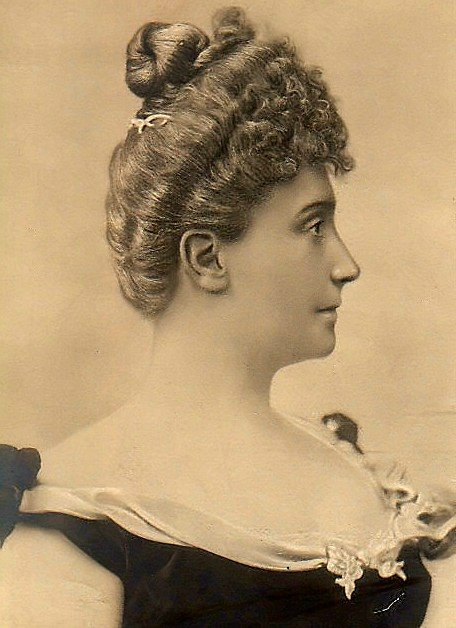 Изабелла Баварская, герцогиня Генуэзская